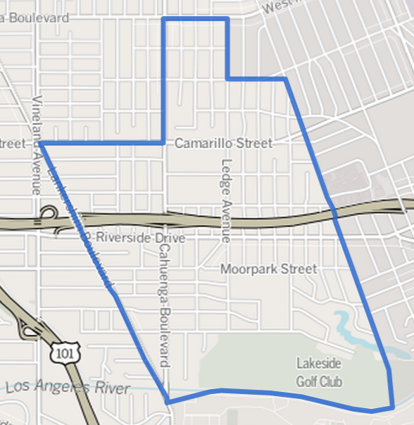 Map showing boundaries of the Toluca Lake district of Los Angeles, in the southeastern San Fernando Valley, California. as by the Los Angeles Times.